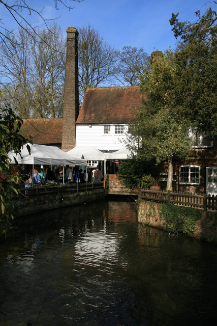 Kingsbury Mill, St Albans They seem to have largely given up on being a museum and are concentrating on being a very successful waffle restaurant.